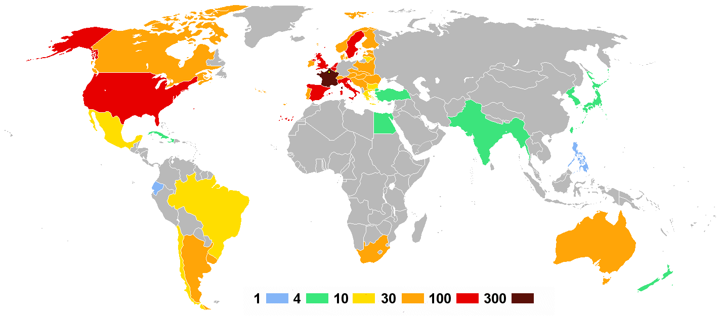 Countries that competed in the 1924 Summer Olympics by number of athletes. Derived from Image:1924_Summer_olympics_team_numbers.png and Image:BlankMap-World-1935.png.